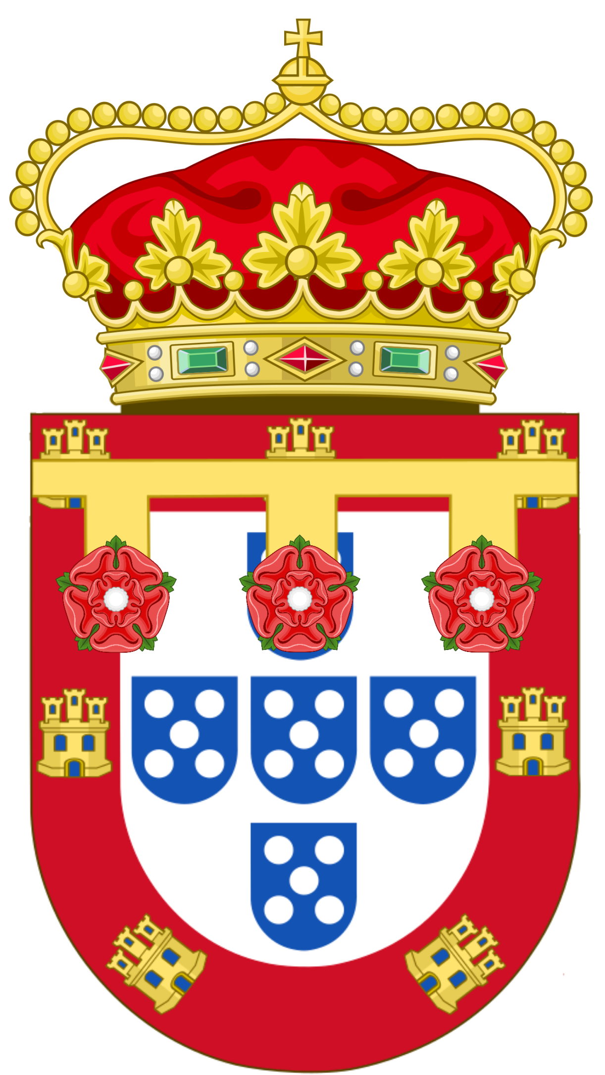 Coat of Arms of the Prince of Beira (1481-1910)